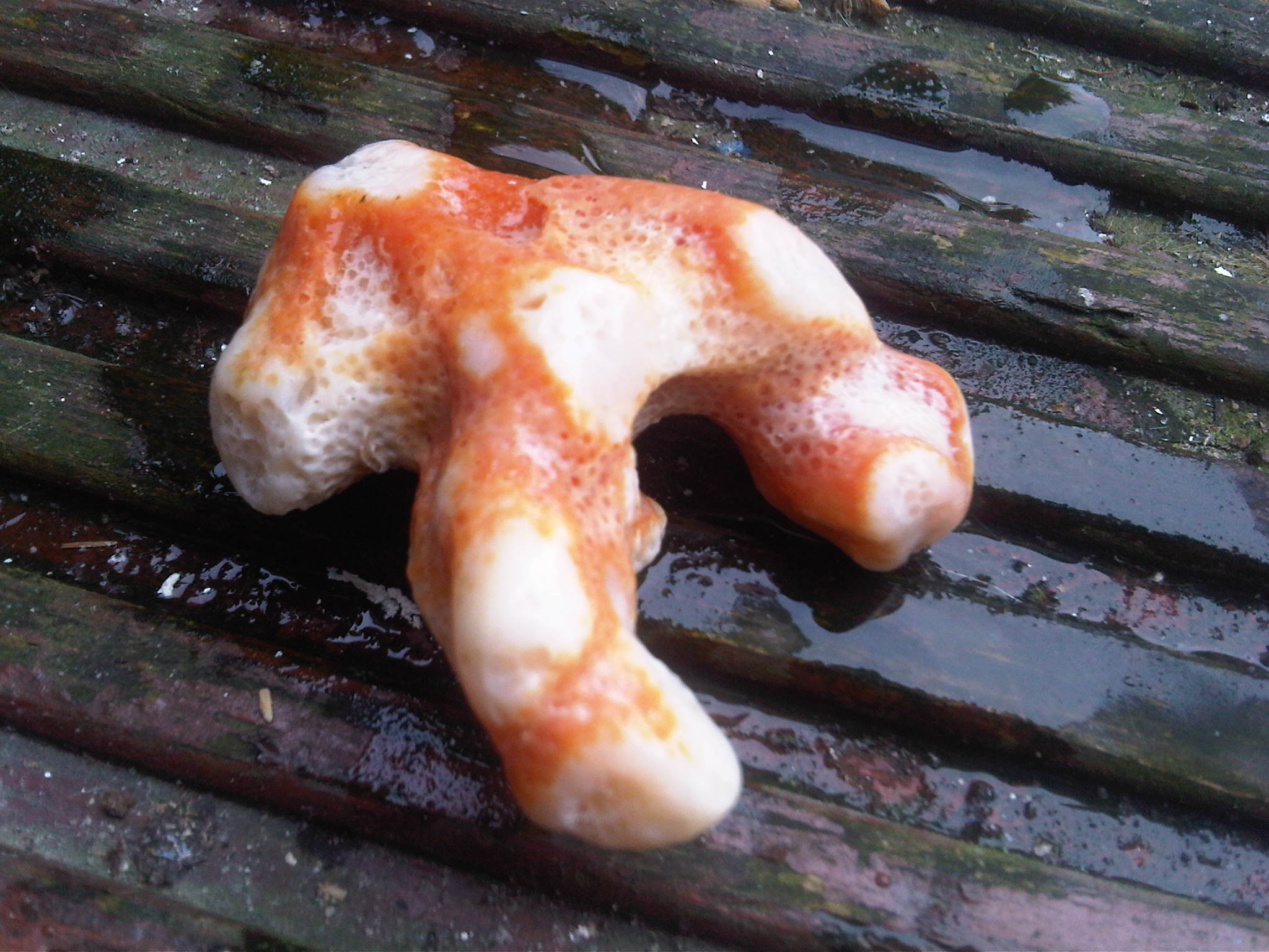 Dead Alcyonium digitatum in a private collection from Thailand, in London, England.